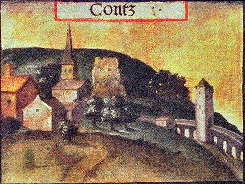 Konz in 1589